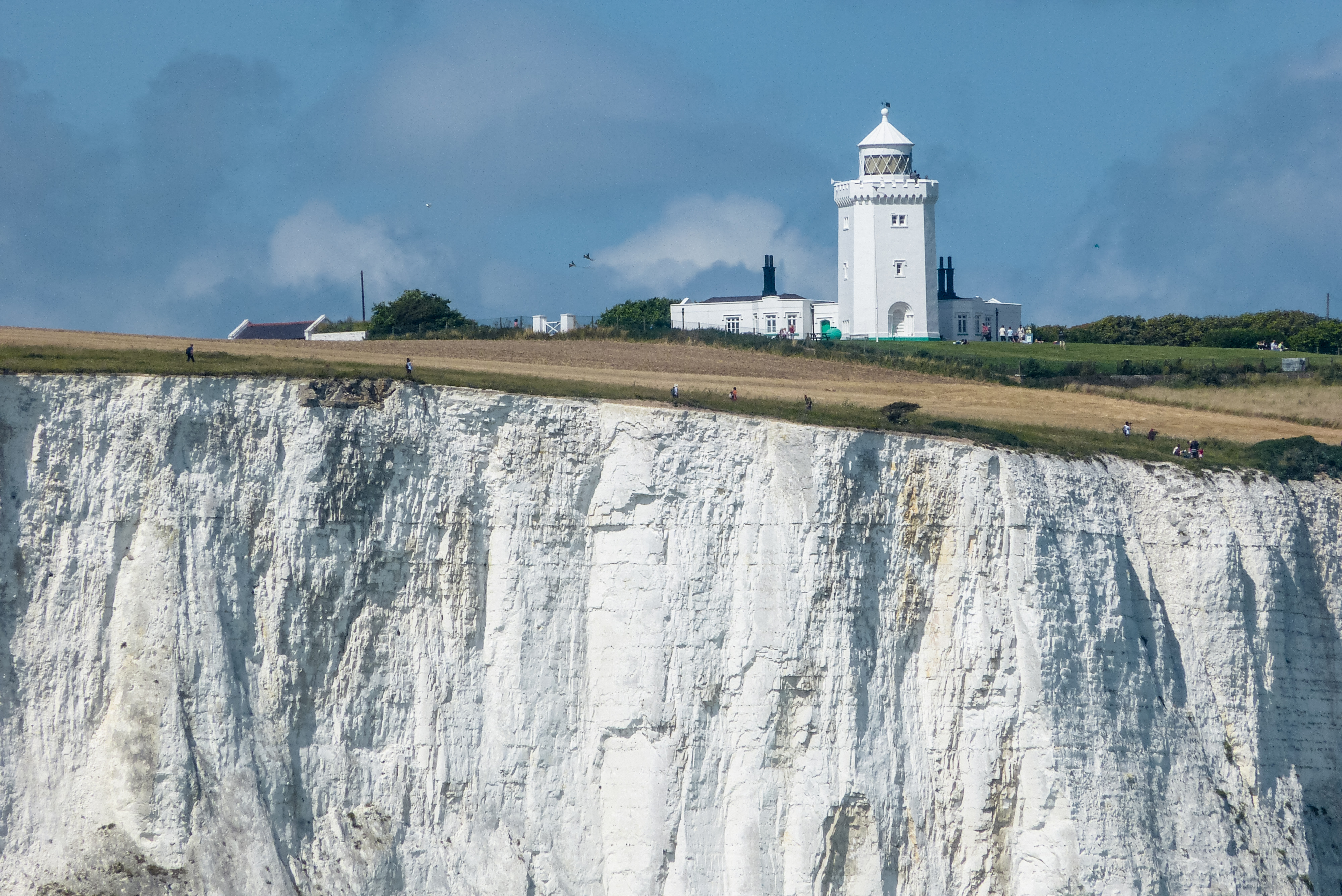 Dover cliffs, South Foreland Lighthouse